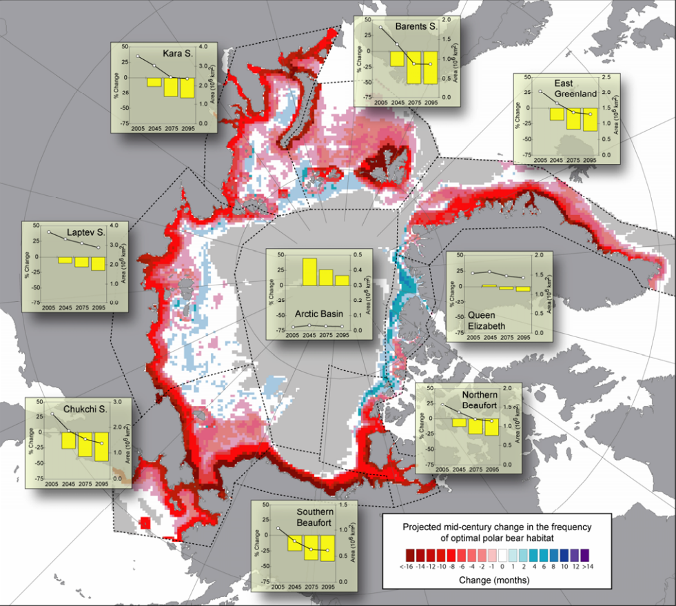 Projected changes (based on 10 IPCC AR-4 GCM models run with the SRES- A1B forcing scenario) in the spatial distribution and integrated annual area of optimal polar bear habitat. Base map shows the cumulative number of months per decade where optimal polar bear habitat was either lost (red) or gained (blue) from 2001–2010 to 2041–2050. Offshore gray shading denotes areas where optimal habitat was absent in both periods. Insets show the average annual ( 12 months) cumulative area of optimal habitat (right y-axis, line plot) for four 10-year periods in the 21st century (x-axis midpoints), and their associated percent change in area (left y axis, histograms) relative to the first decade (2001–2010).